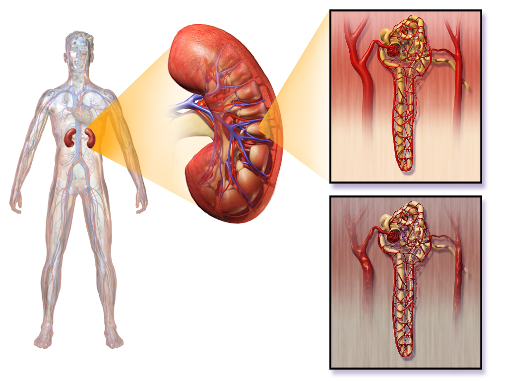 Diabetic Nephropathy. See a full animation of this medical topic